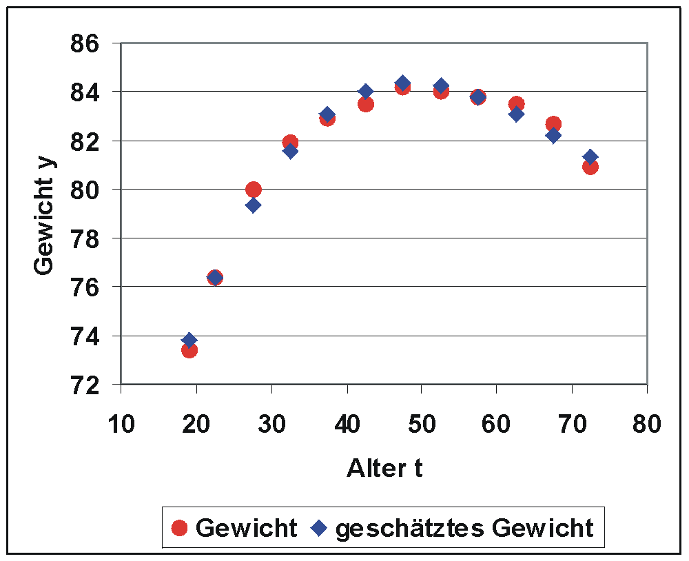 Disperssion graphic of y and its estimated value y(t)